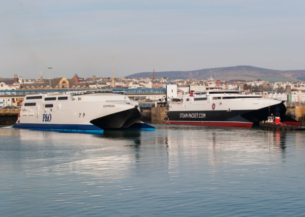 HSC Express and her sister Incat 050 Manannan in Douglas Harbour at the 2015 Isle of man TT